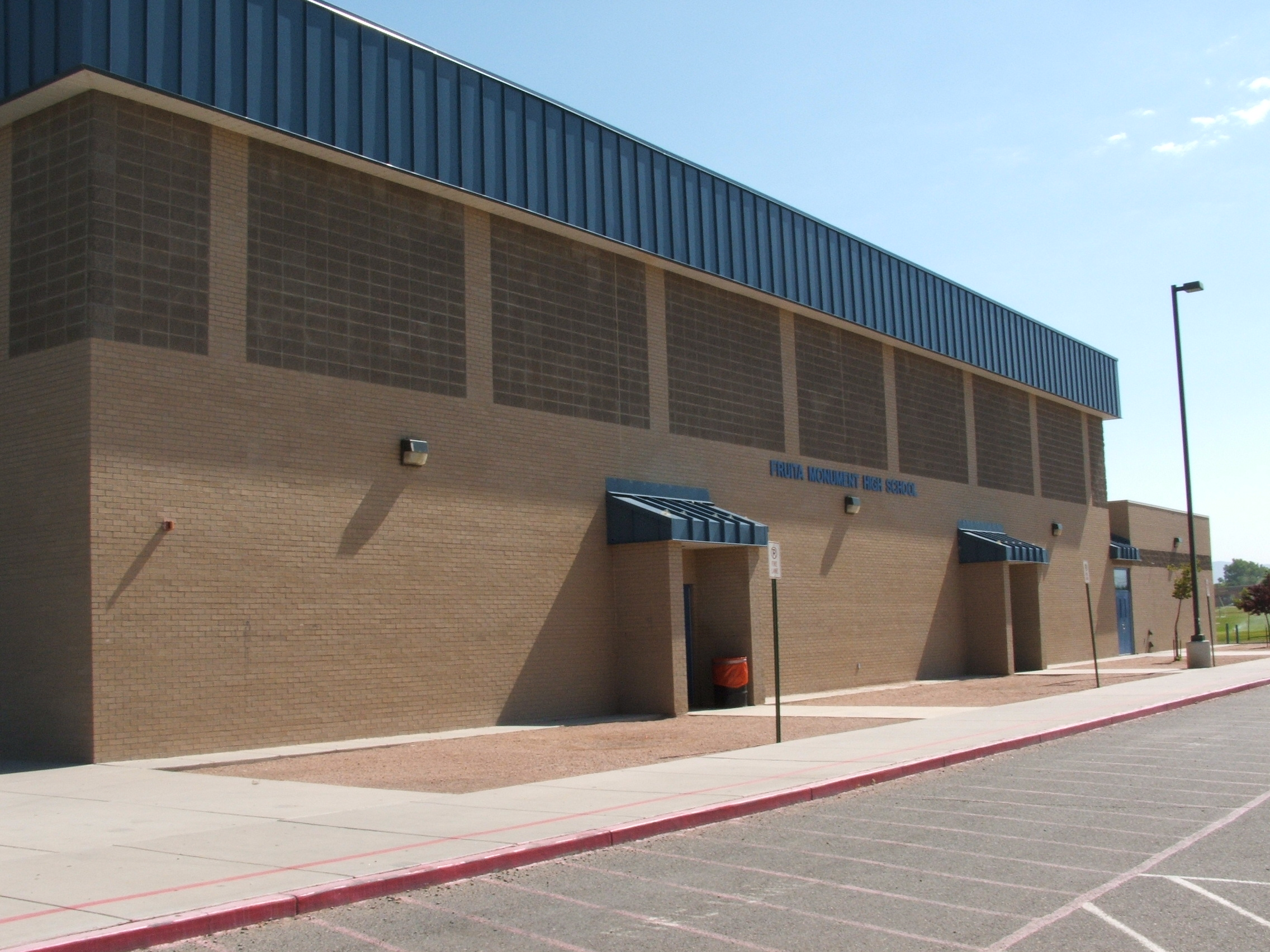 South entrance of the Fruita Monument High School building